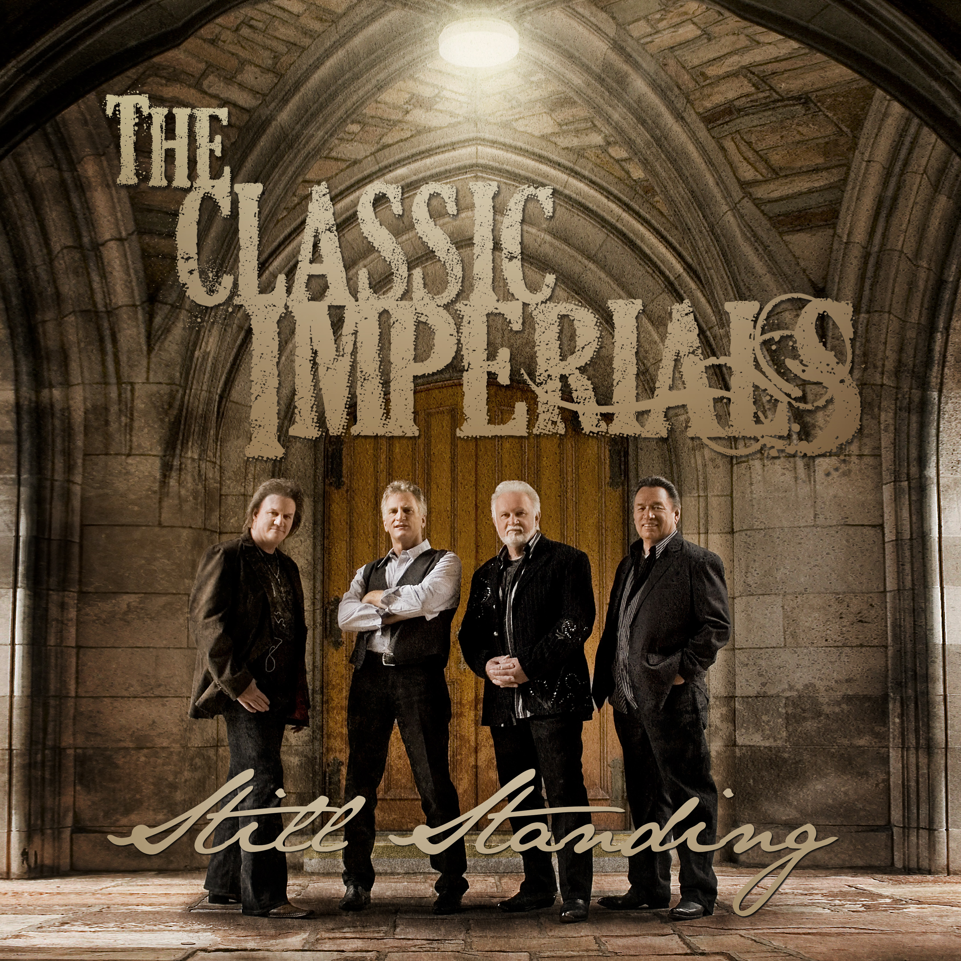 After more than twenty five year apart, GRAMMY award winner Paul Smith rejoins GMA Hall Of Fame Recipient and GRAMMY award winner Armond Morales, GMA Hall Of Fame Recipient and GRAMMY award winner Dave Will, and Newcomer Rick Evans (Dennis Agajanian Band, Franklin Graham Festival team member, Billy Graham Evangelistic Association, Greg Laurie and the Harvest Crusades team member, and groups new G.M.) to release "Still Standing"